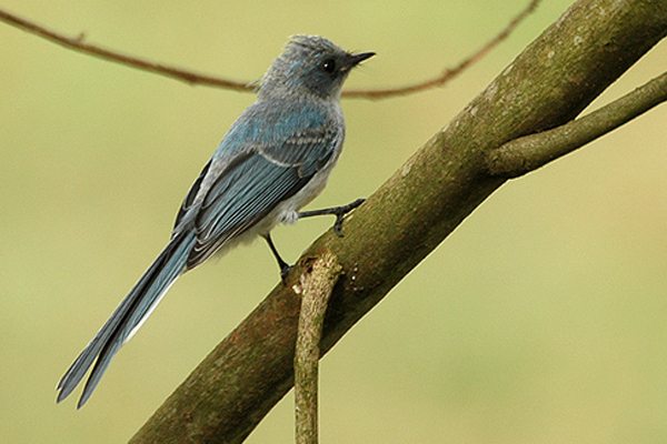 Uganda White-tailed Blue Flycatcher (Elminia albicauda) Buhoma, Bwindi NP Jan 2006